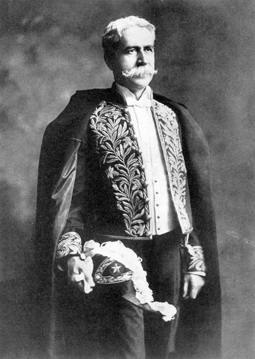 Three quarter length portrait of Joaquim Nabuco in diplomatic uniform, 1902.